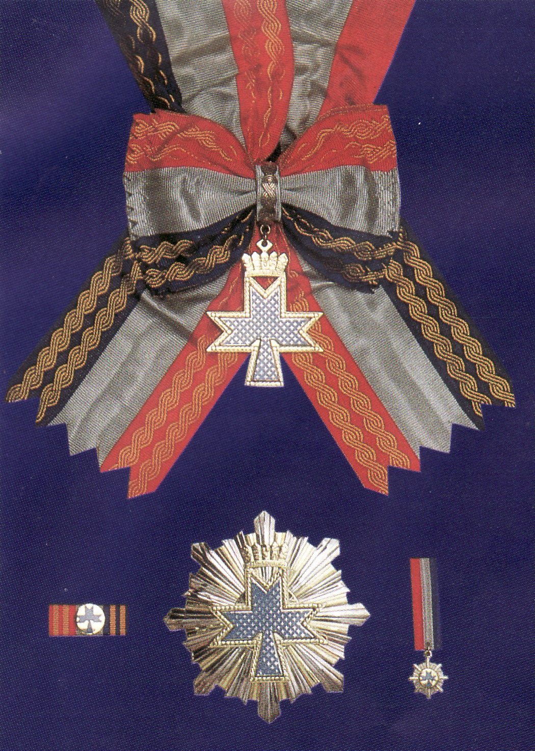 Sash, Morning Star and Ribbon of Grand Order of King Tomislav